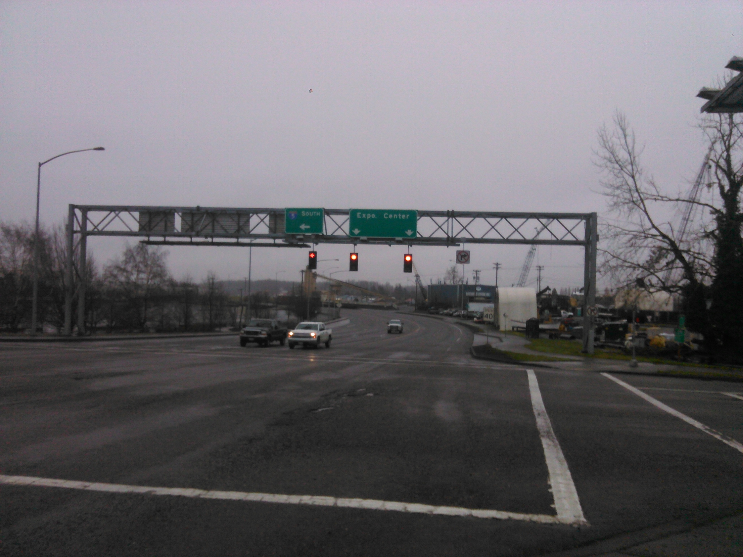 Looking west, this is the northern terminus of Oregon Route 99E and the eastern terminus of Oregon Route 120.